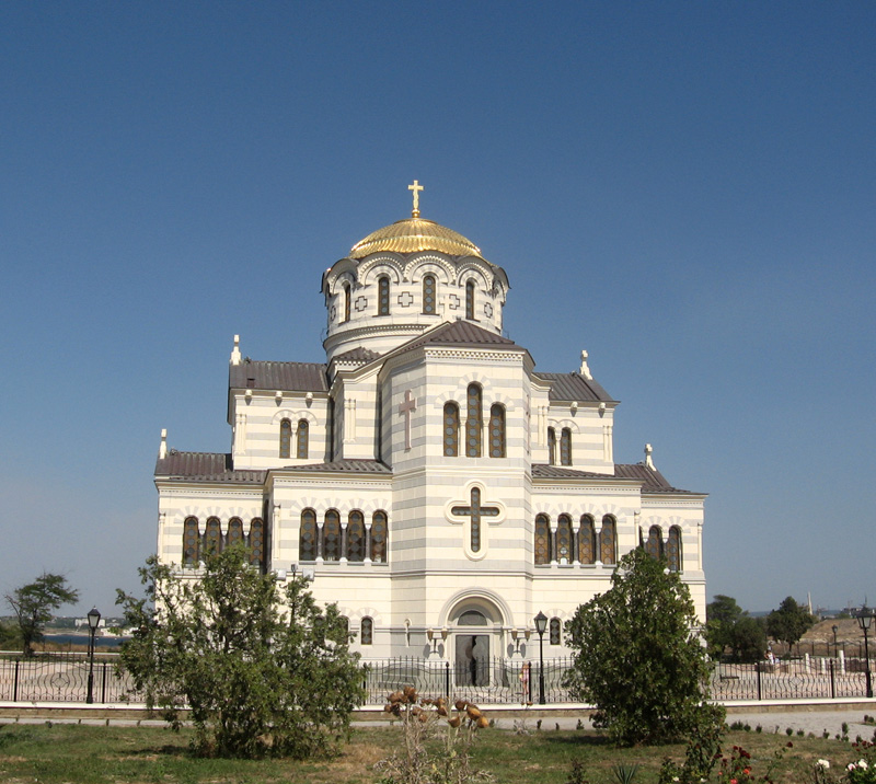 St. Vladimir church, Khersones, Sevastopol